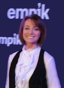 Irena Jarocka